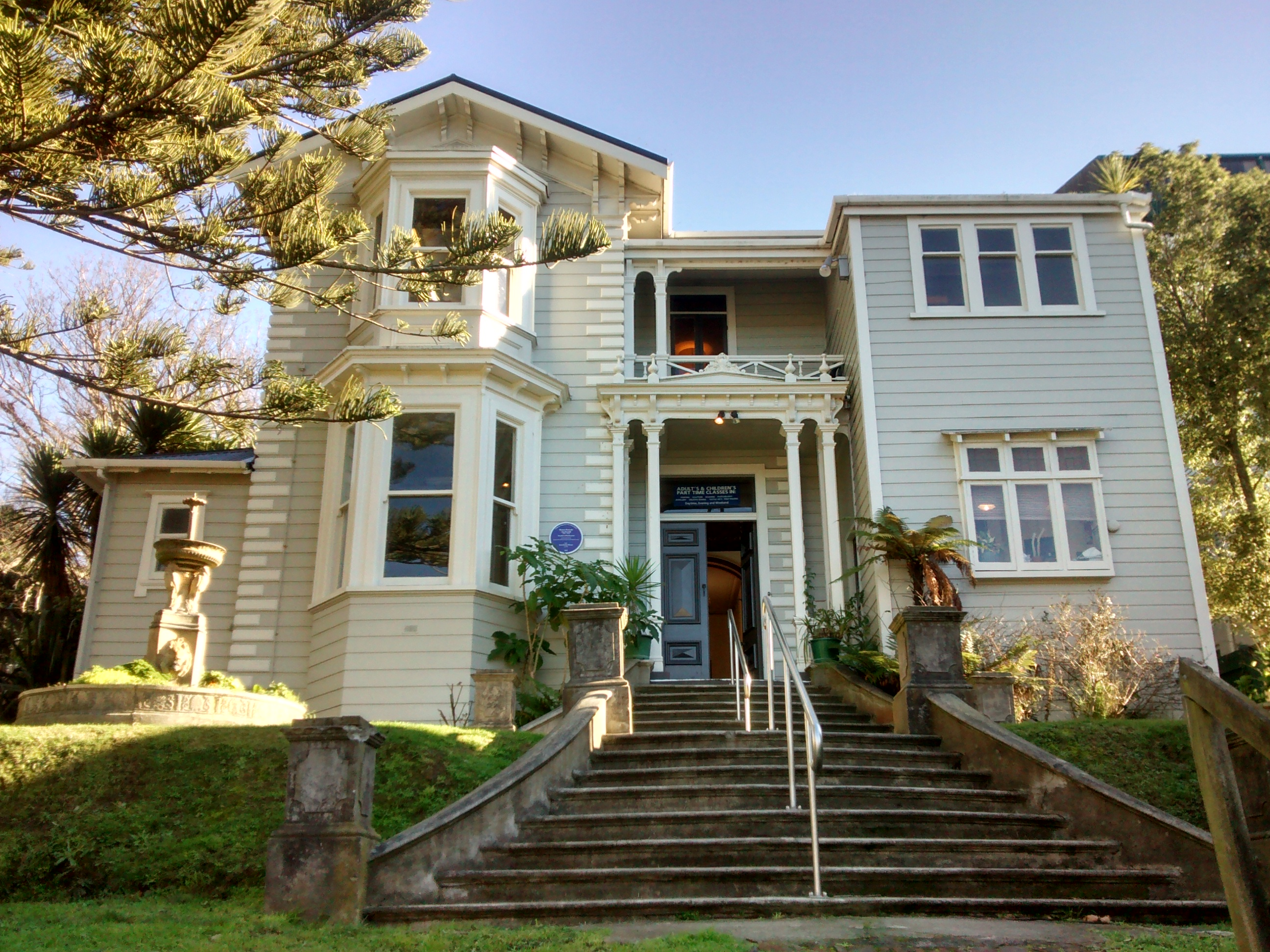 Inverlochy House in Aro Valley, Wellington